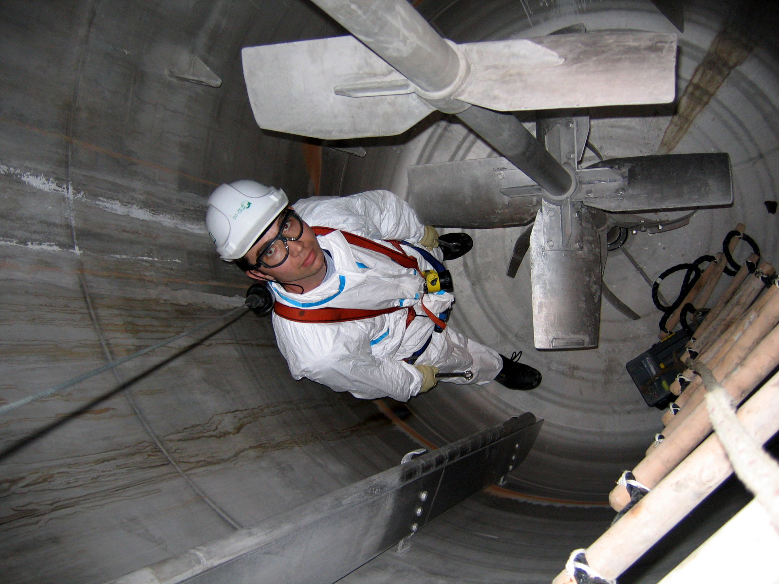 Chemical reactor CSTR (continuous stirred-tank reactor model). Check of a condition of the case. Material AISI 316.